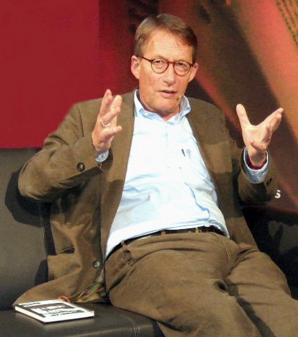 The German author Friedrich Christian Delius.